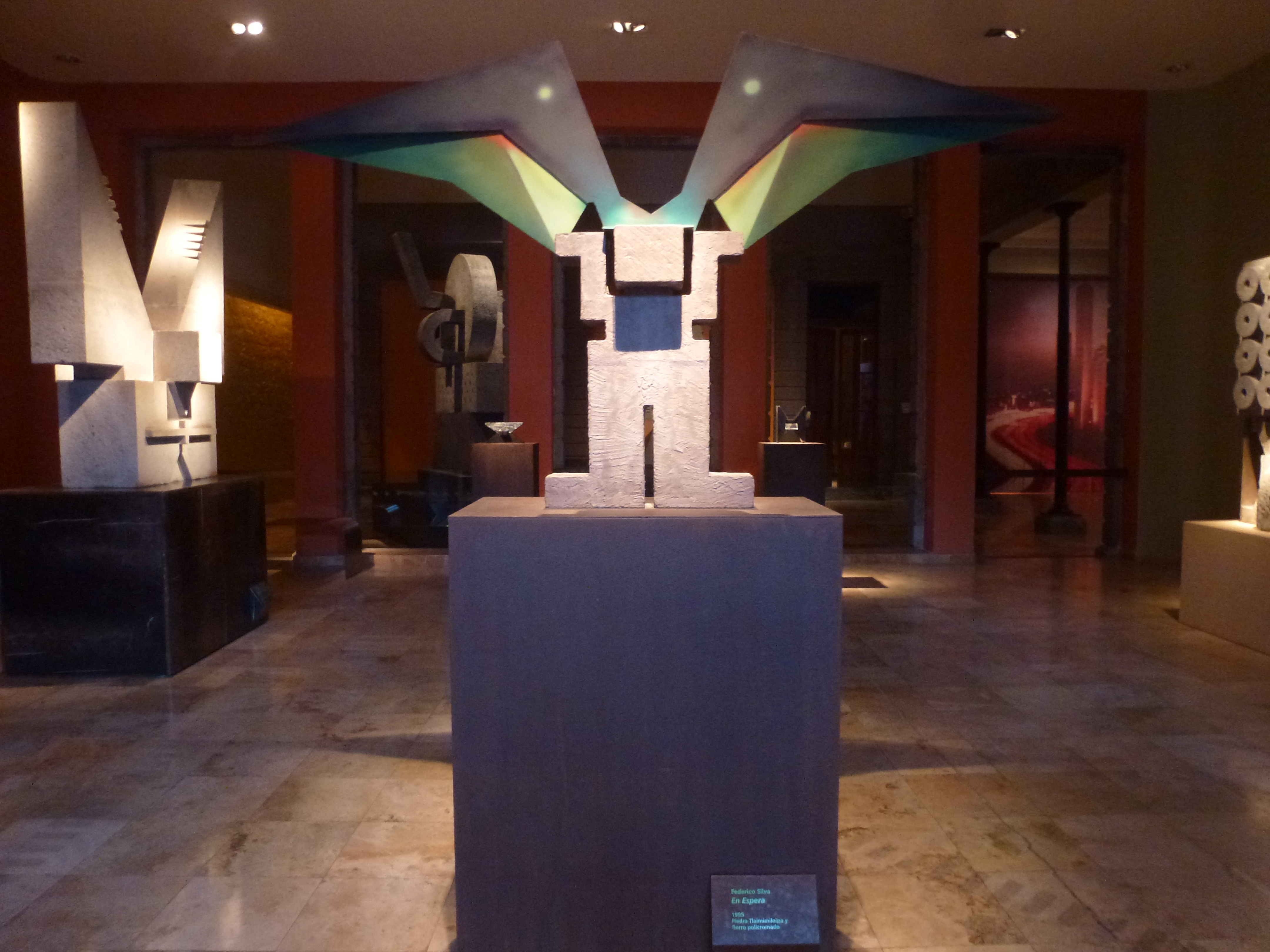 En Espera --- sculpture of Federico Silva,1995 (in Federico Silva Museum, San Luis Potosi, Mexico)